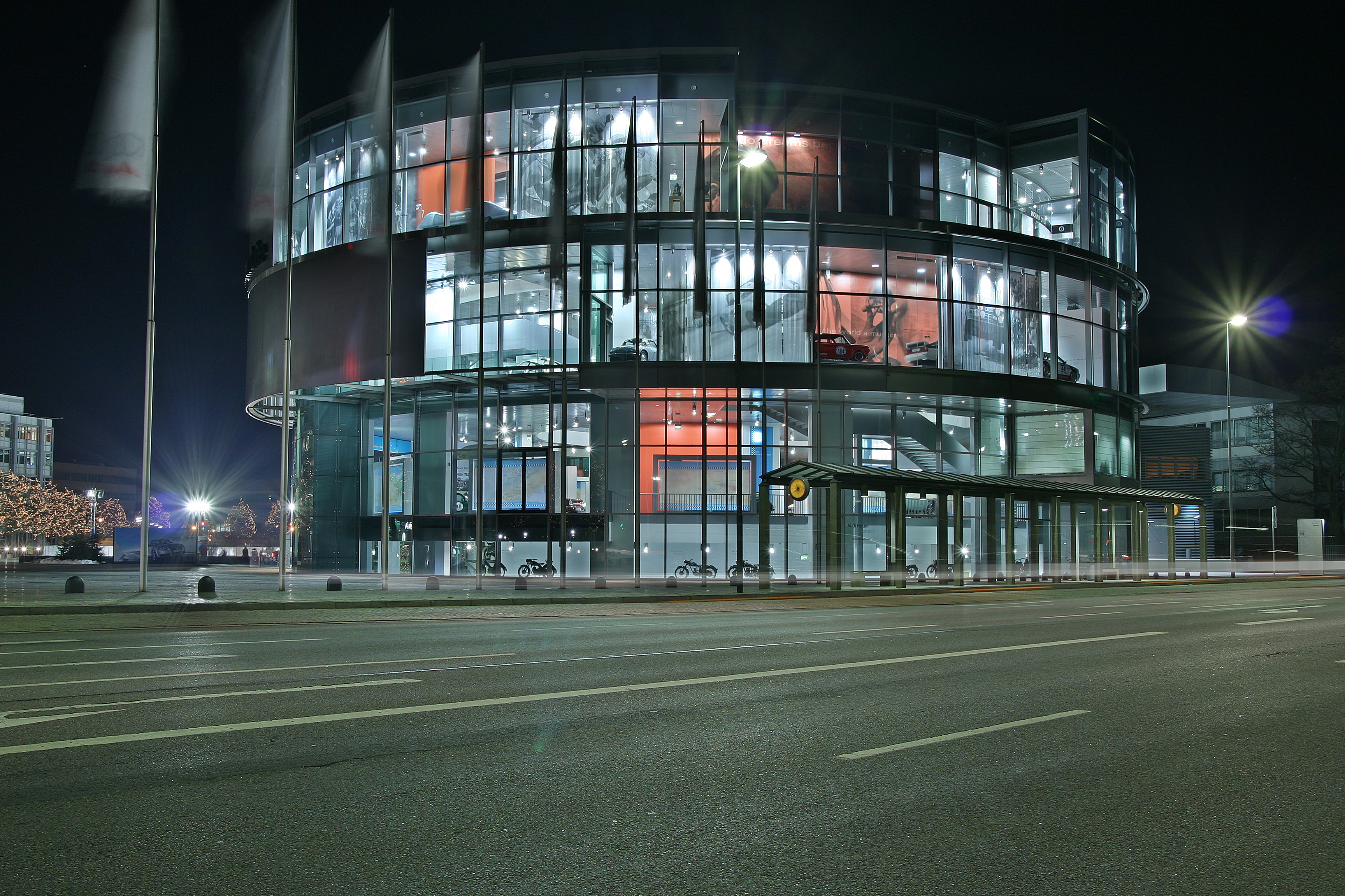 The museum mobile is a part of the Audi Forum that is located in Ingolstadt